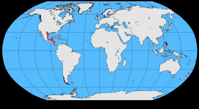 Map showing global distribution of Brown Jay (Cyanocorax morio) species.